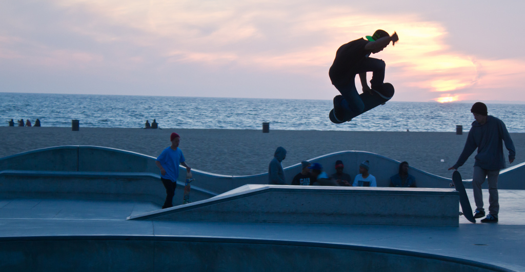 Evening skateboarding in Venice Beach, California